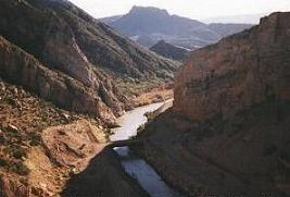 Gila River — just below Coolidge Dam, in Gila County.